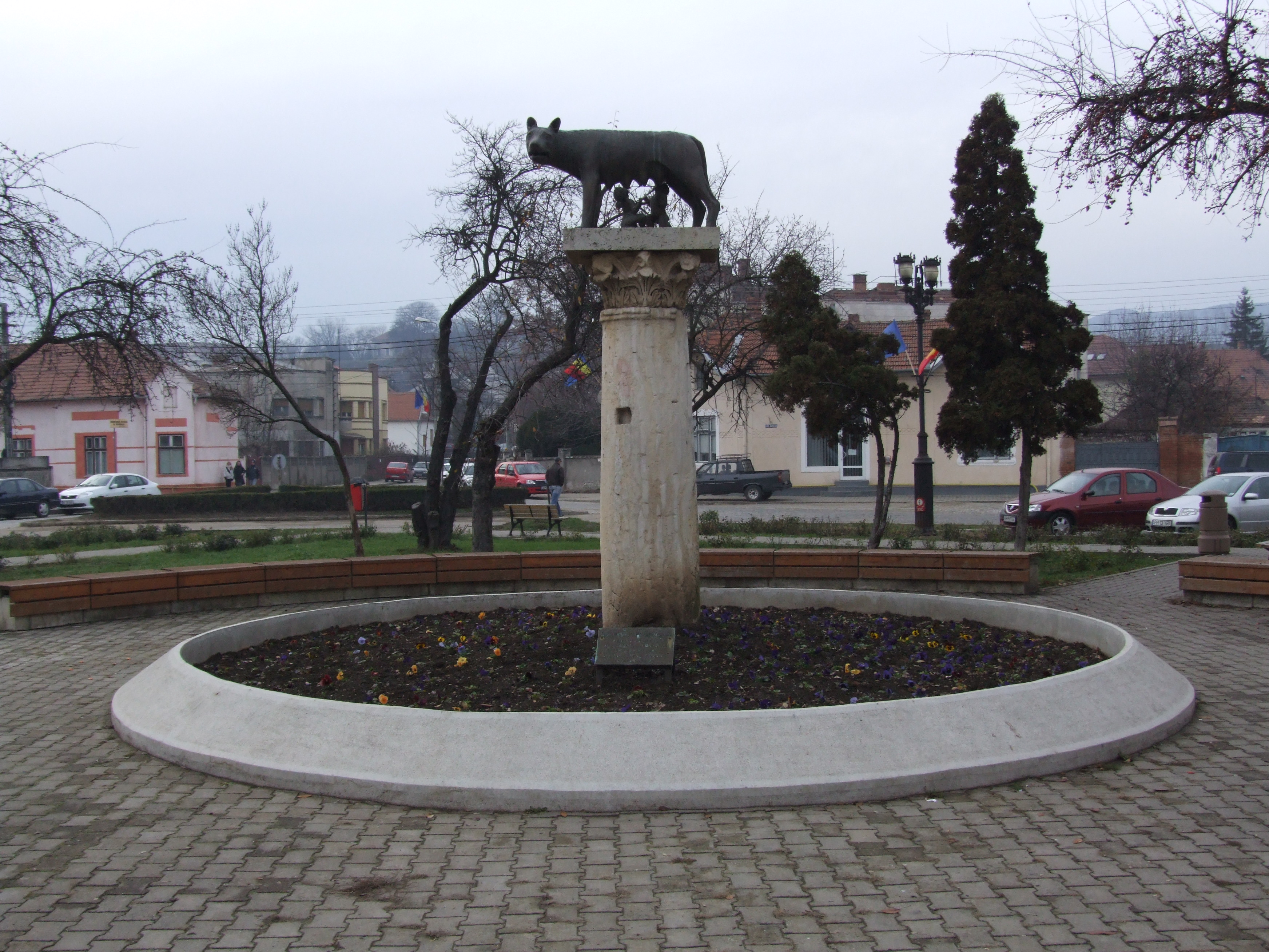 Statue, replica of Lupa Capitolina, located in Alba Iulia